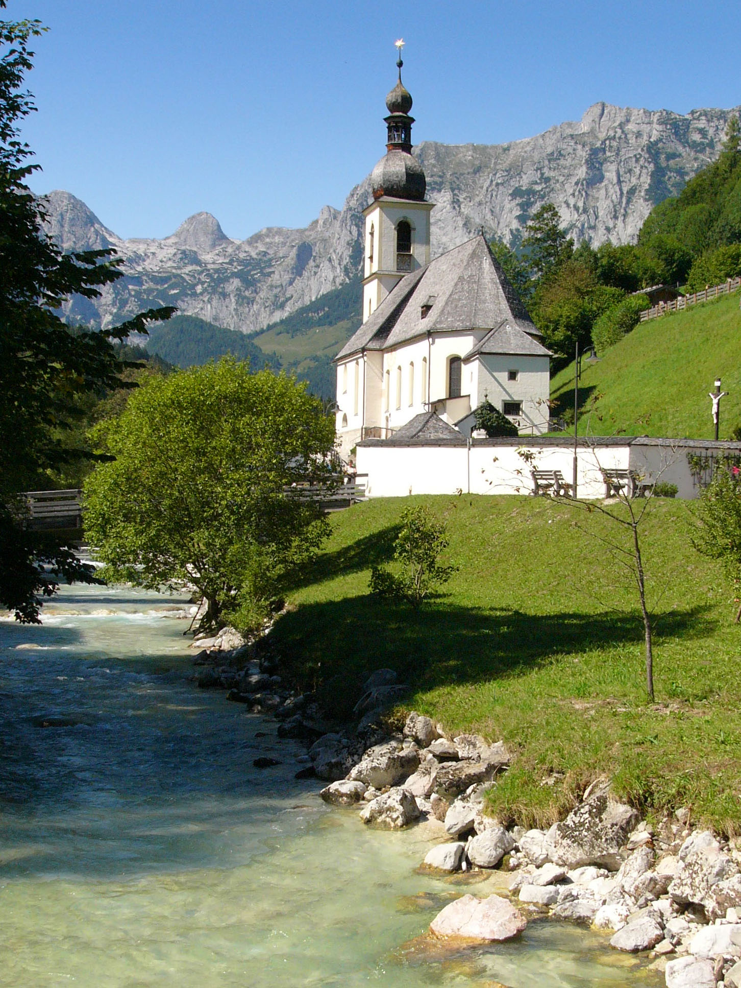 Ramsau, Village in Bavaria, Germany